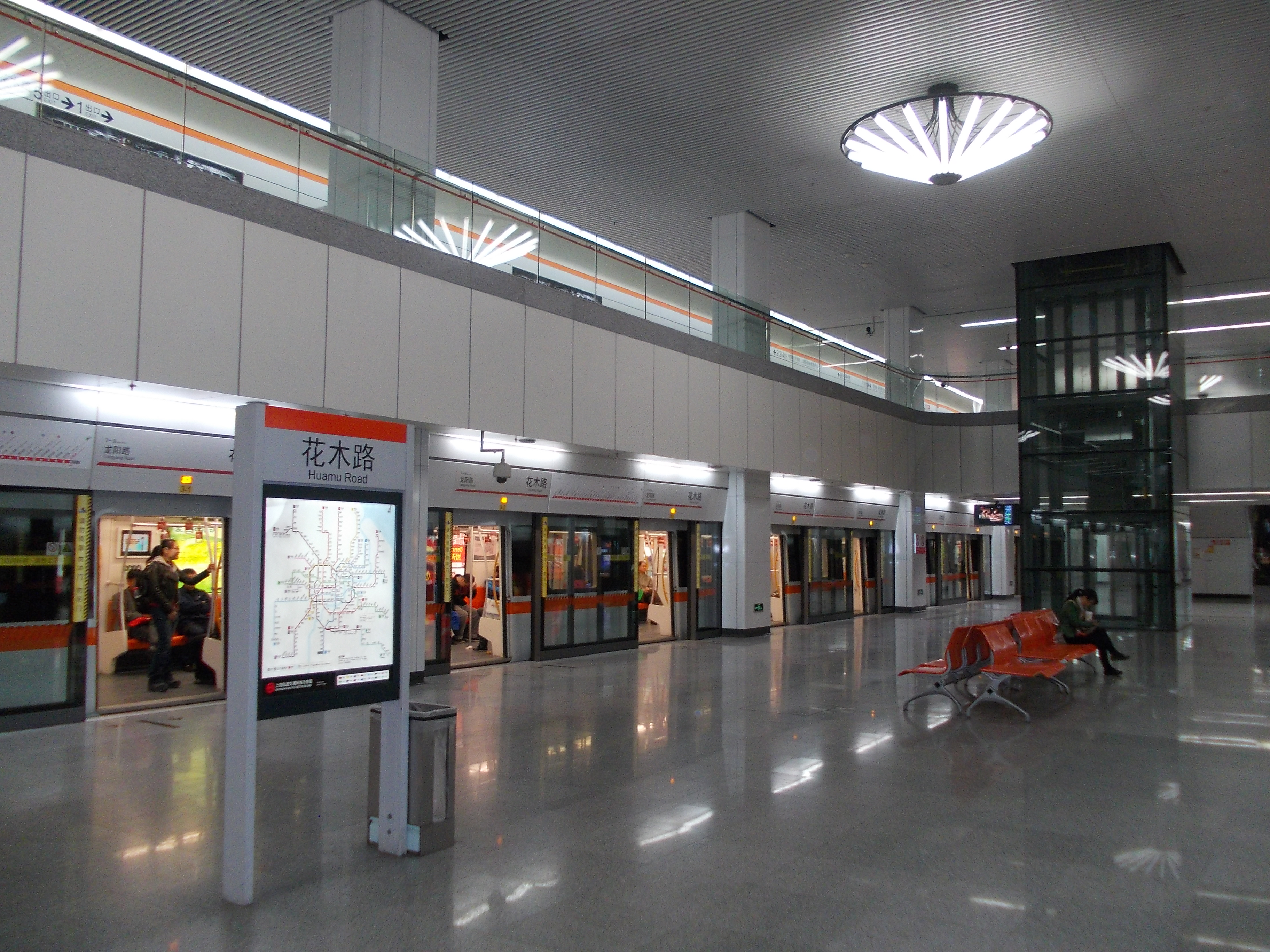 Shanghai Metro - Line 7 - Huamu Road - Platform